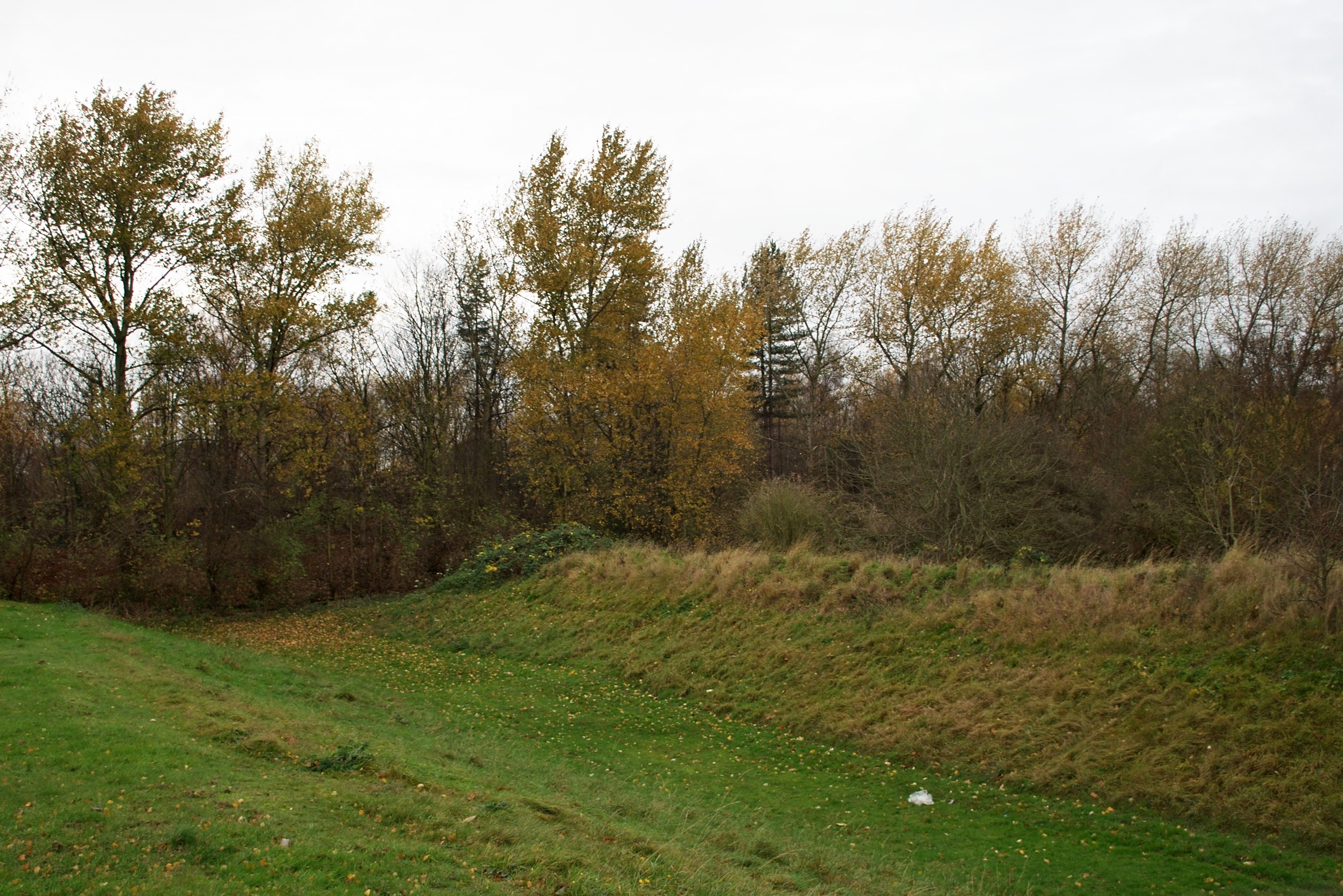 A remaining section of Raw Dykes, a Roman earthwork in Leicester. It is a Scheduled Monument